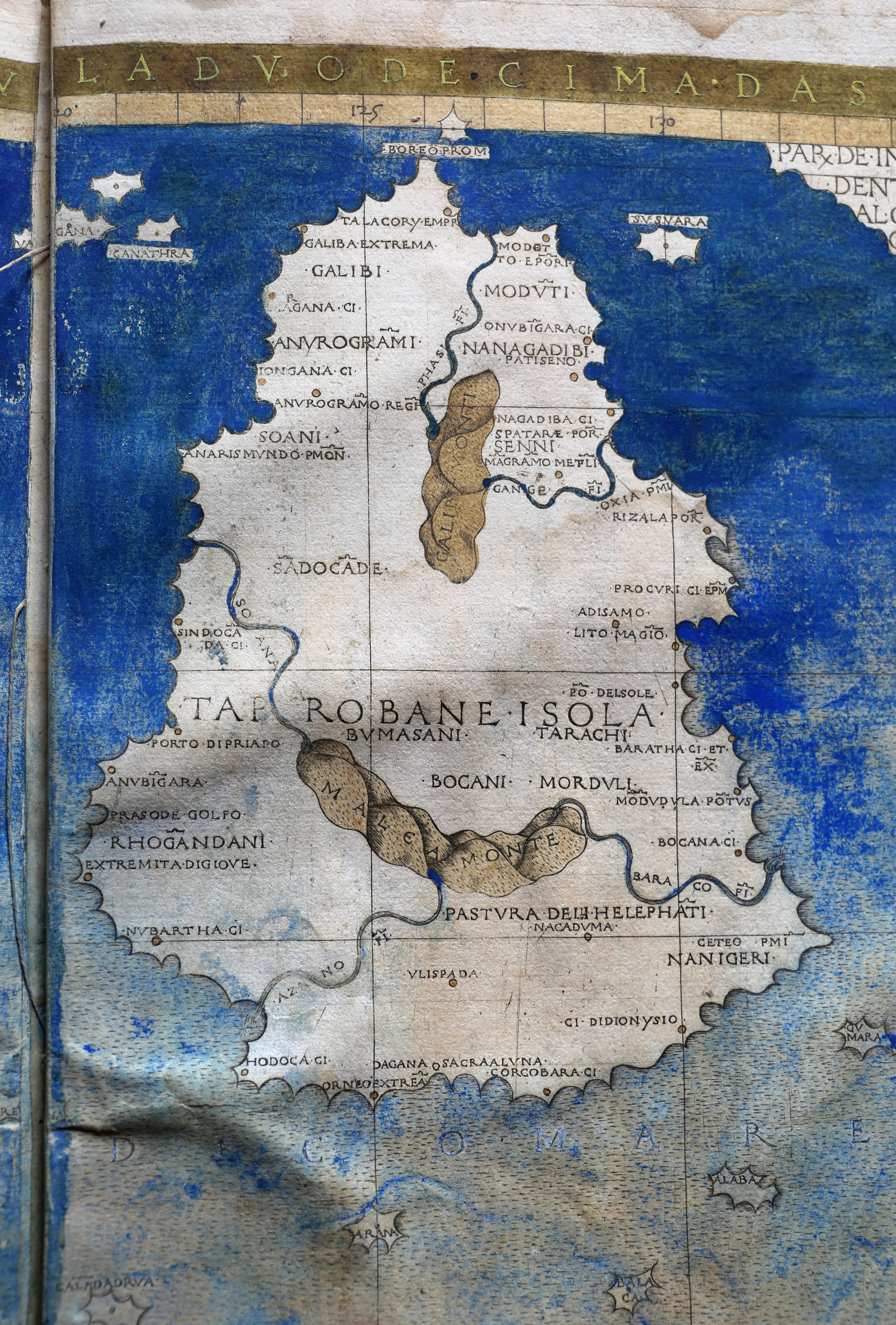 Geographia by Francesco Berlinghieri (Crusca)